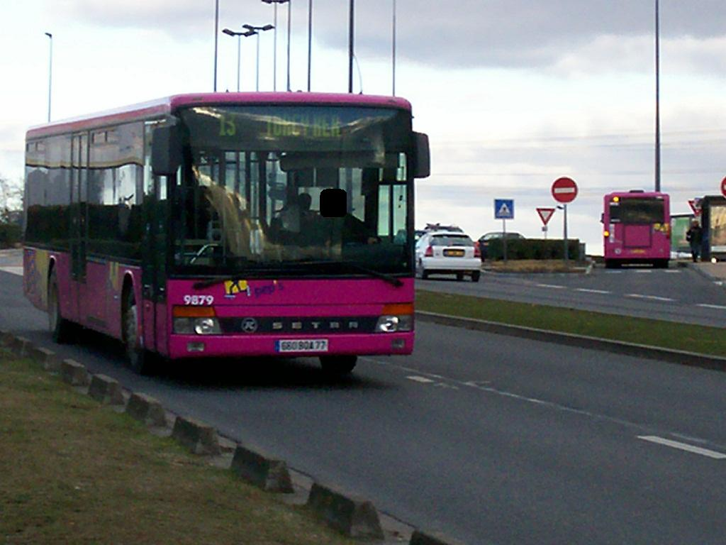 2 bus Pep's vers le centre commercial Bay2